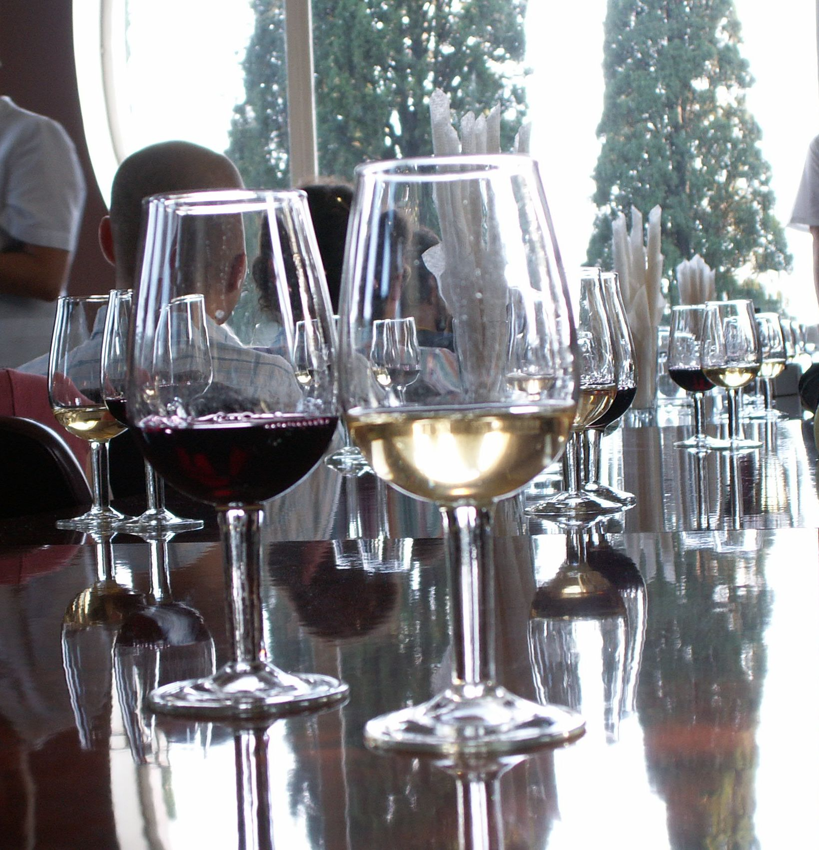 Degustation of wine.